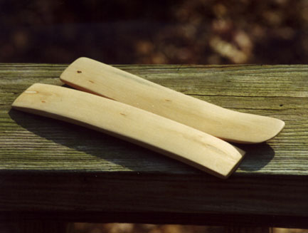 A pair of musical bones carved from maple. Photo by Bob DeVellis